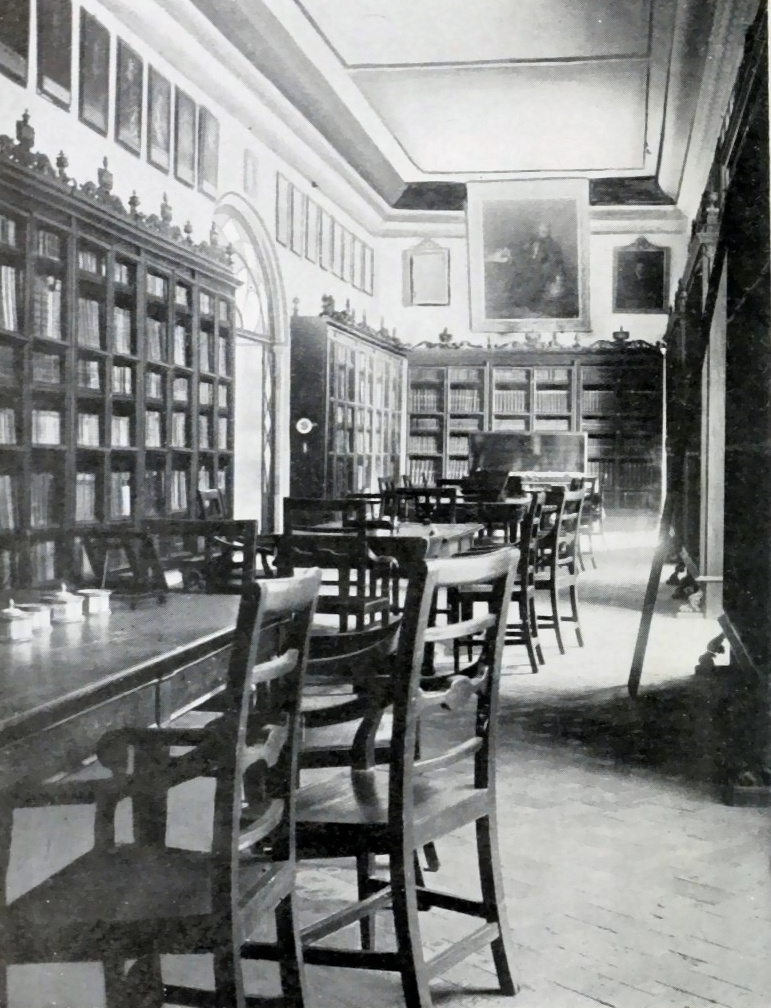 Interior photo of the Biblioteca Colombina